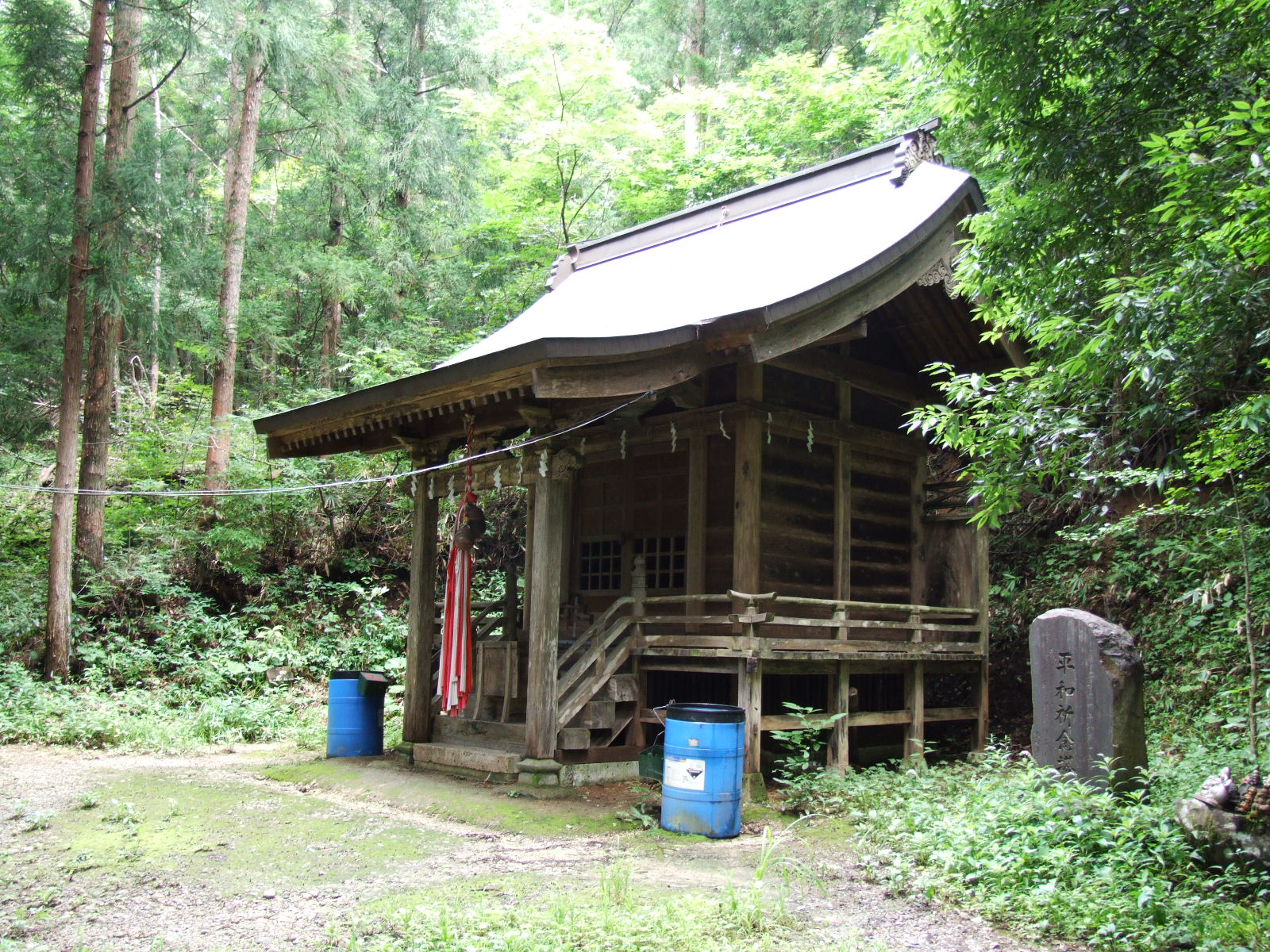 Enryū Shrine. Kumagane, Sendai, Miyagi prefecture, Japan.